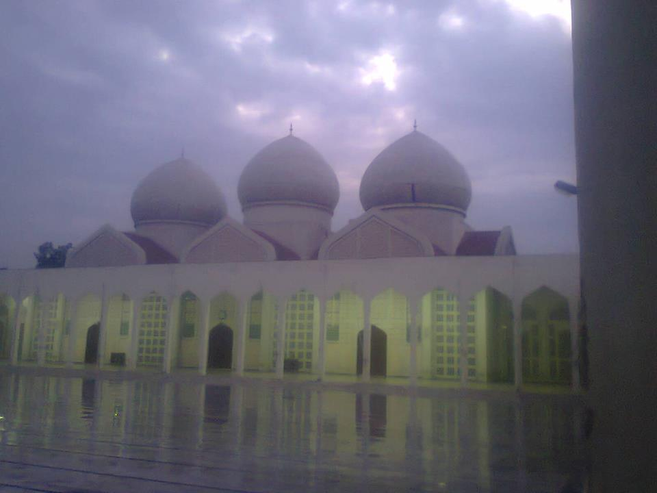 Punjab University This is a photo of a monument in Pakistan identified as the PB-P-70